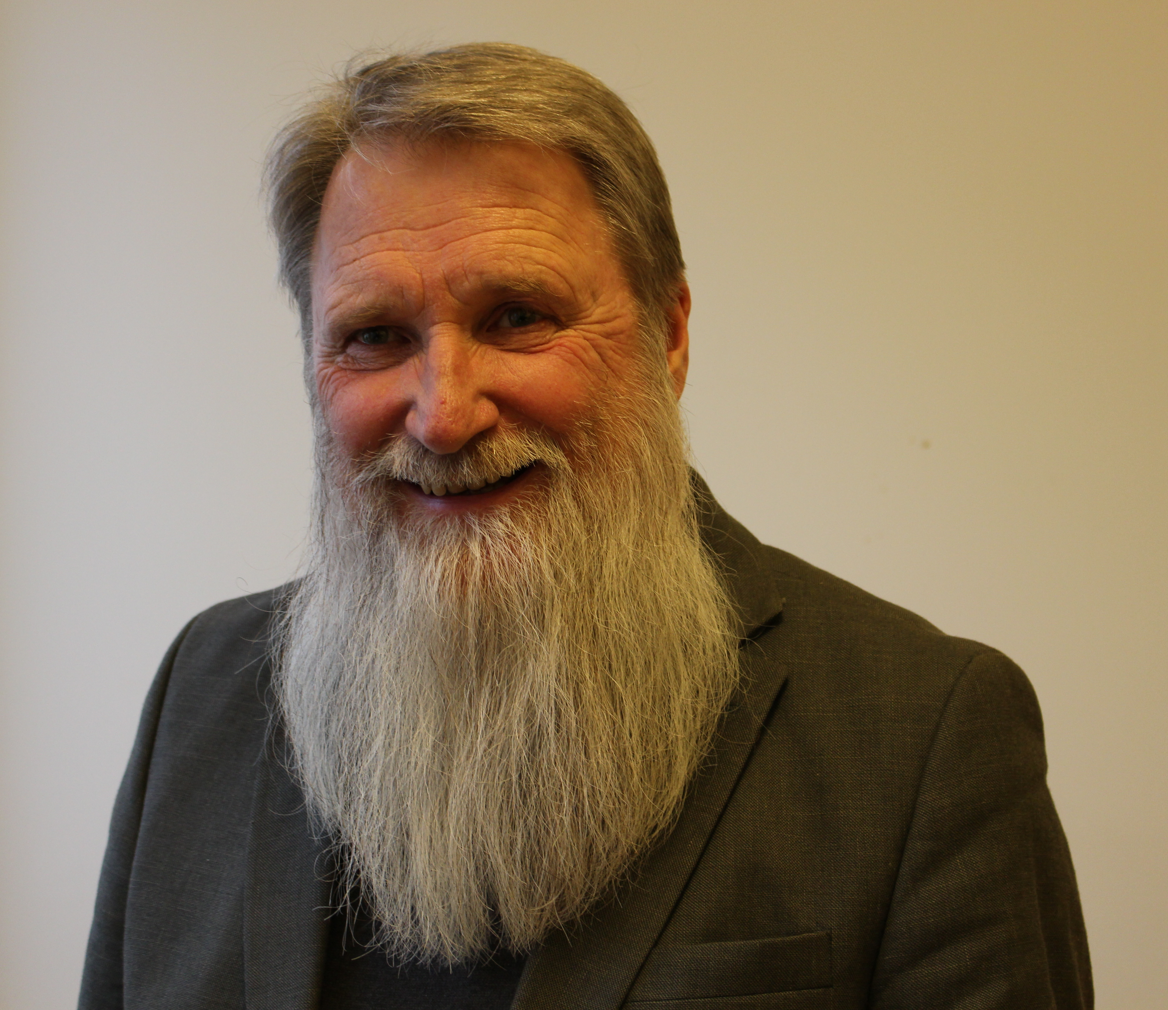 Håkan Sunnliden